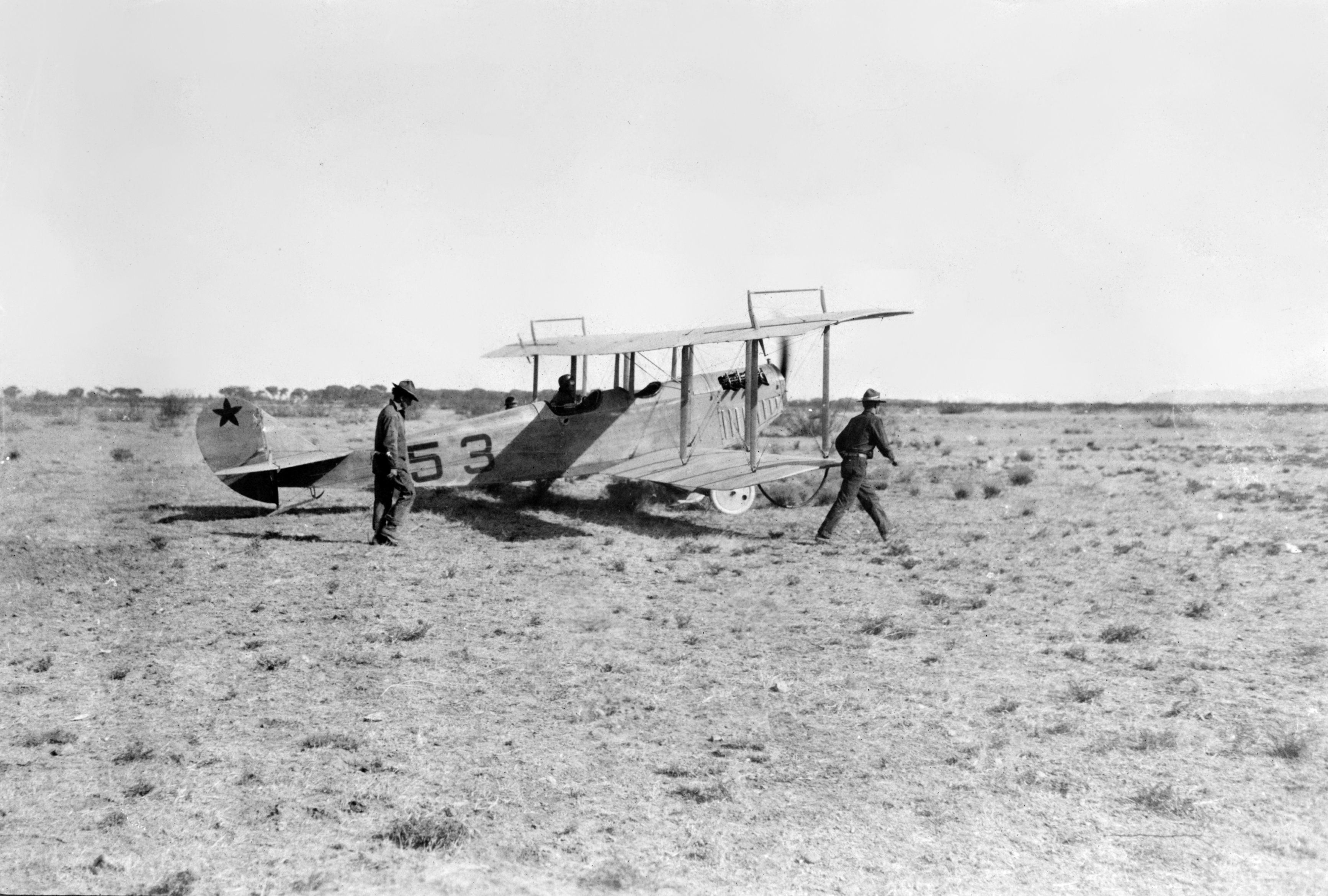 Original caption: "Lieut. C.G. Chapman preparing for a scouting expedition at Casas Grandes, Mexico--Mexican-U.S. campaign after Villa, 1916." In March 1916, the 1st Aero Squadron was deployed to Mexico for aerial observation with eight Curtiss JN-3s during the Pancho Villa Expedition of 1916–1917.